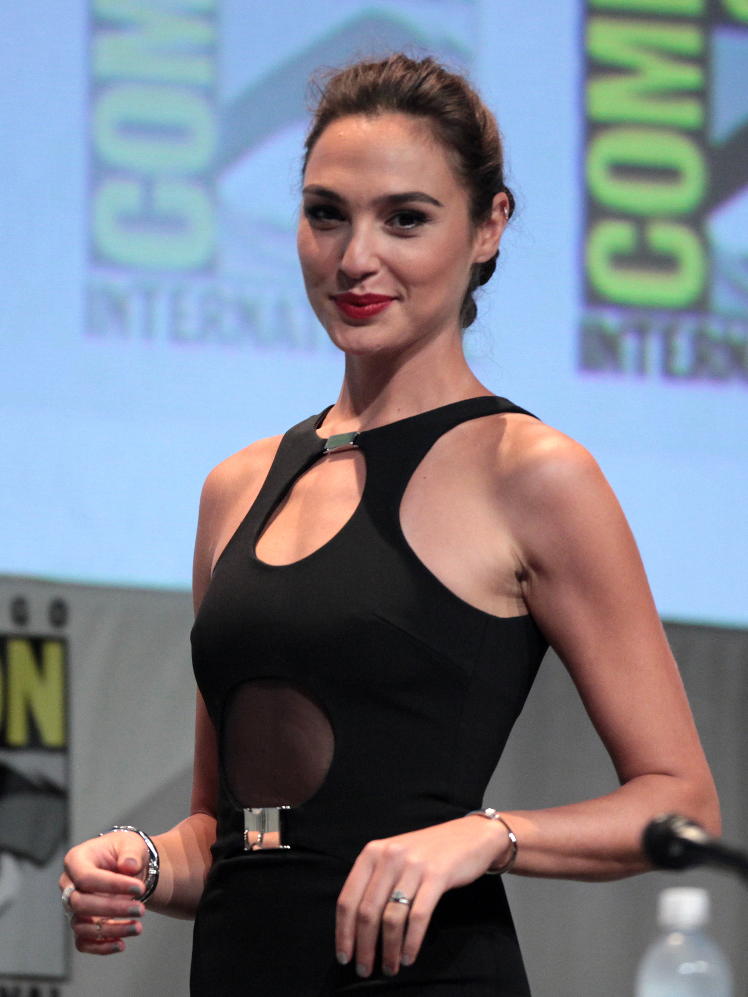 Gal Gadot speaking at the 2015 San Diego Comic Con International, for "Entertainment Weekly: Women Who Kick Ass", at the San Diego Convention Center in San Diego, California.